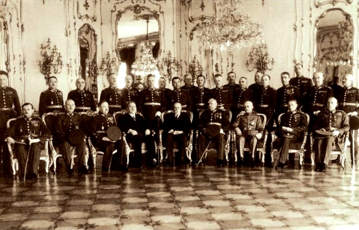 Czechoslovak generals during the reception by the president of the Czechoslovak Republic T. G. Masaryk (fifth from right). The Prime Minister Jan Syrový (sitting fourth from right), Gen. S. Wojciechowski (sitting second from right). Prague, 1935